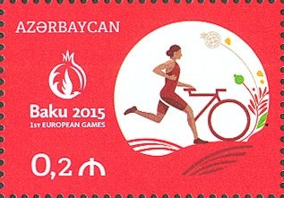 Baku 2015. First European Games.(2nd edition) N 1212 - 20 qapik – Triathlon